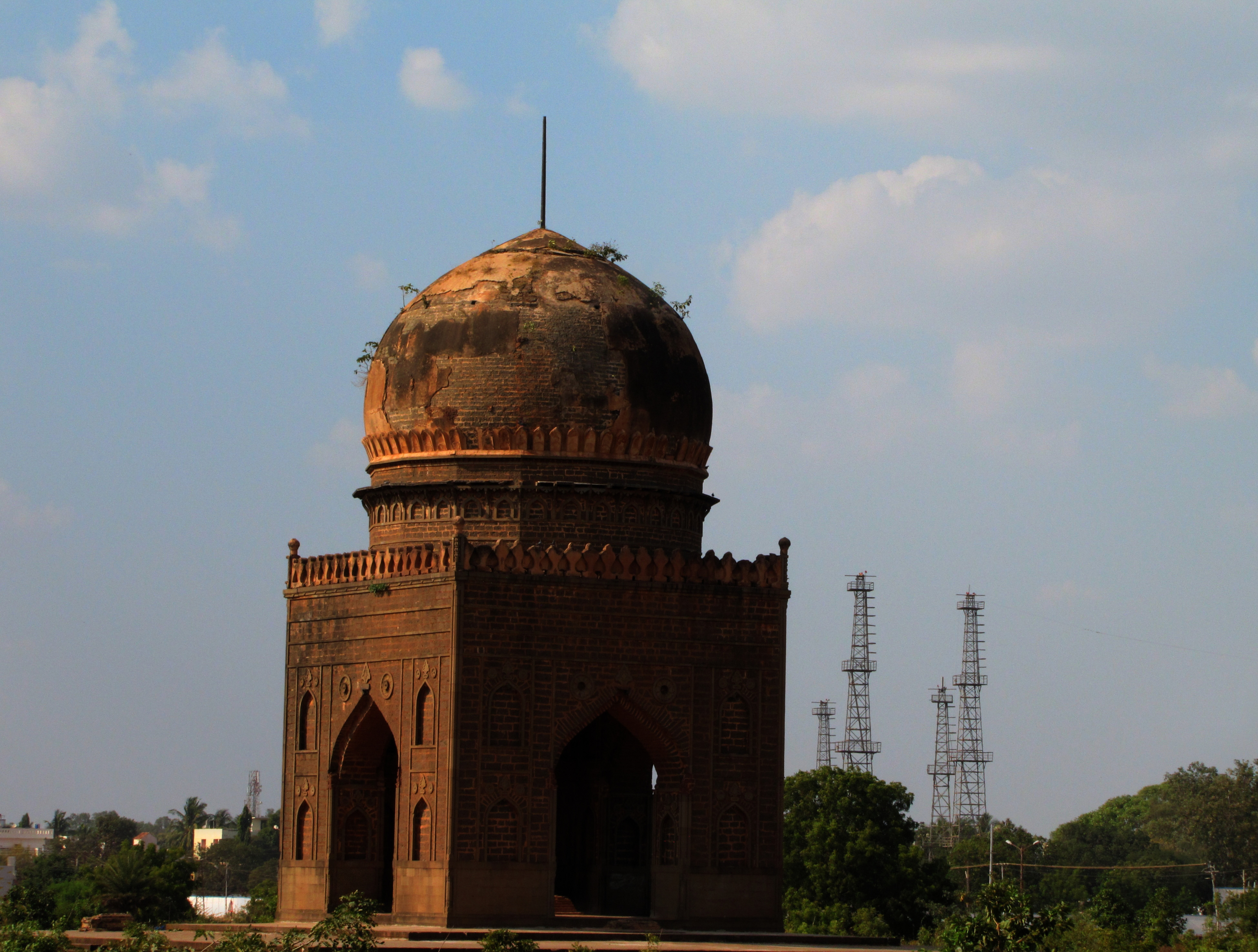 The tomb of Kasim Barid is almost similar to the one of Ali Barid. However, we do not find any colors inside the tomb. Kasim Barid, being an earlier ruler probably did not concentrate much on design. The inner design of the dome is exactly like the former but completely plan. Some of the flower designs are very intact and beautiful.